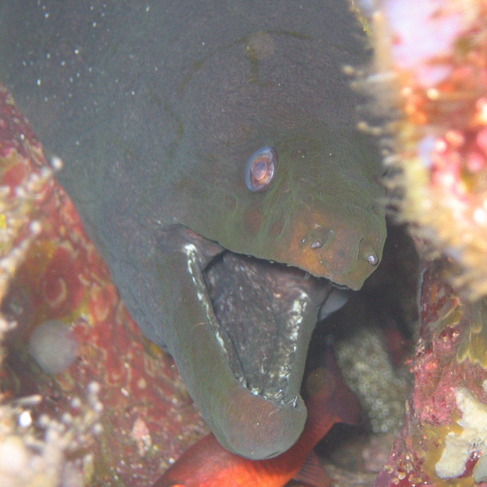 Picture of a panamic green moray eel (Gymnothorax castaneus), taken in the Galapagos Islands while scuba diving